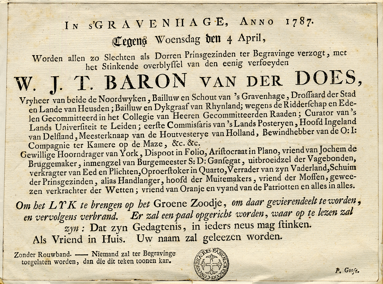 Mocking invitation for the funaral of Wigbold Johan Theodoor baron van der Does (1726-1787), Lord of Noordwijk, Offem, Ter Lucht, St. Anthonispolder and Langeveld.